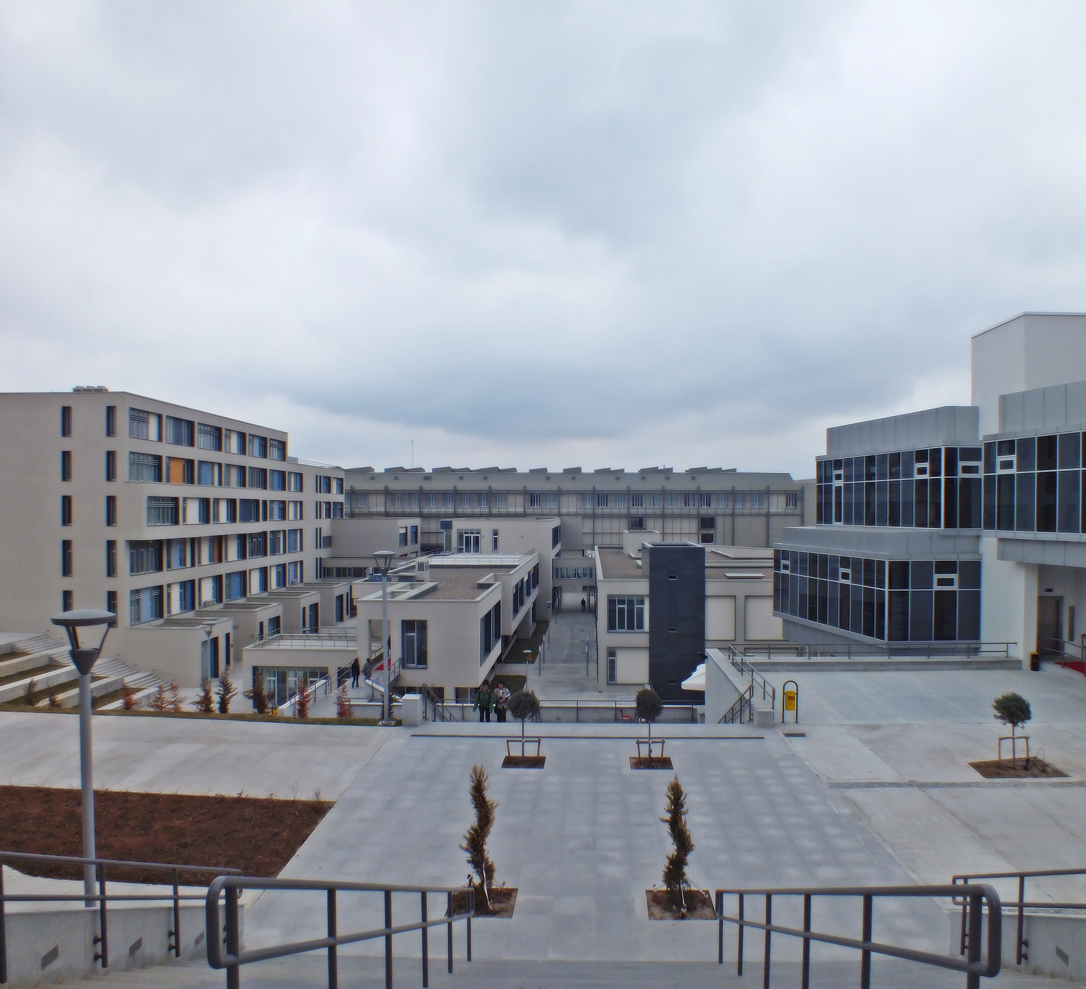 A view of Çankaya University Turkuaz campus in daytimeTürkçe: Gündüz vakti Çankaya Üniversitesi Turkuaz kampüsünden bir görünüm